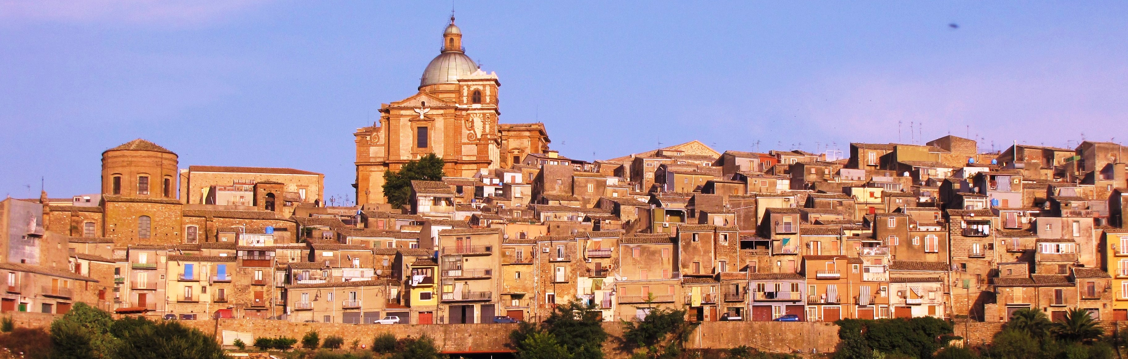 Caltagirone Pagebanner Panorama